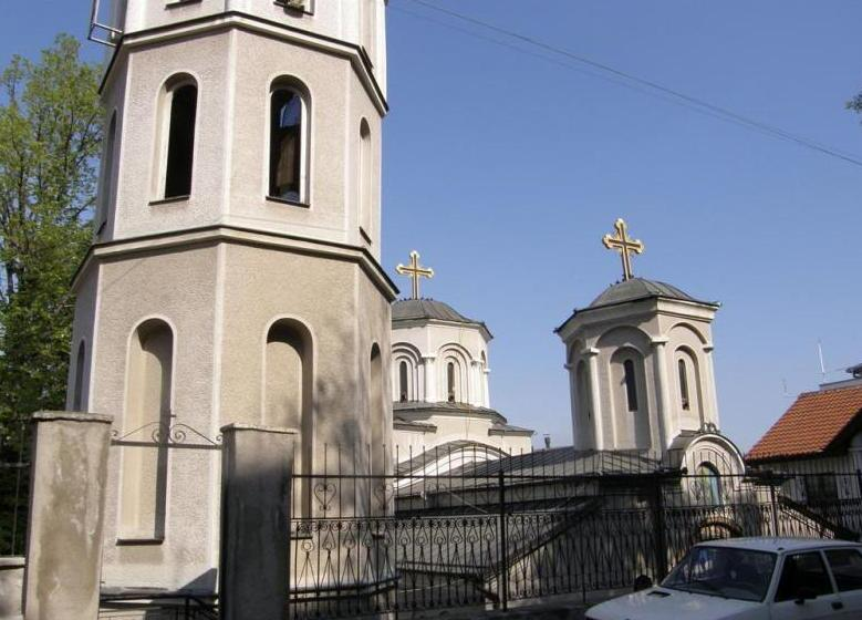 St. Petka church in Crniče, Skopje, Macedonia